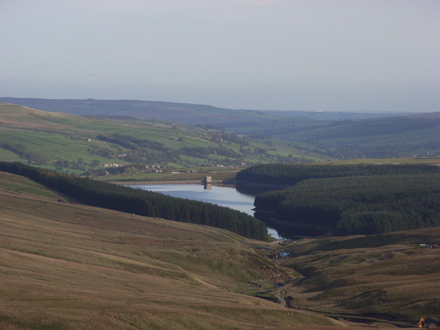 Burnhope Reservoir View down the valley of Burn Hope.